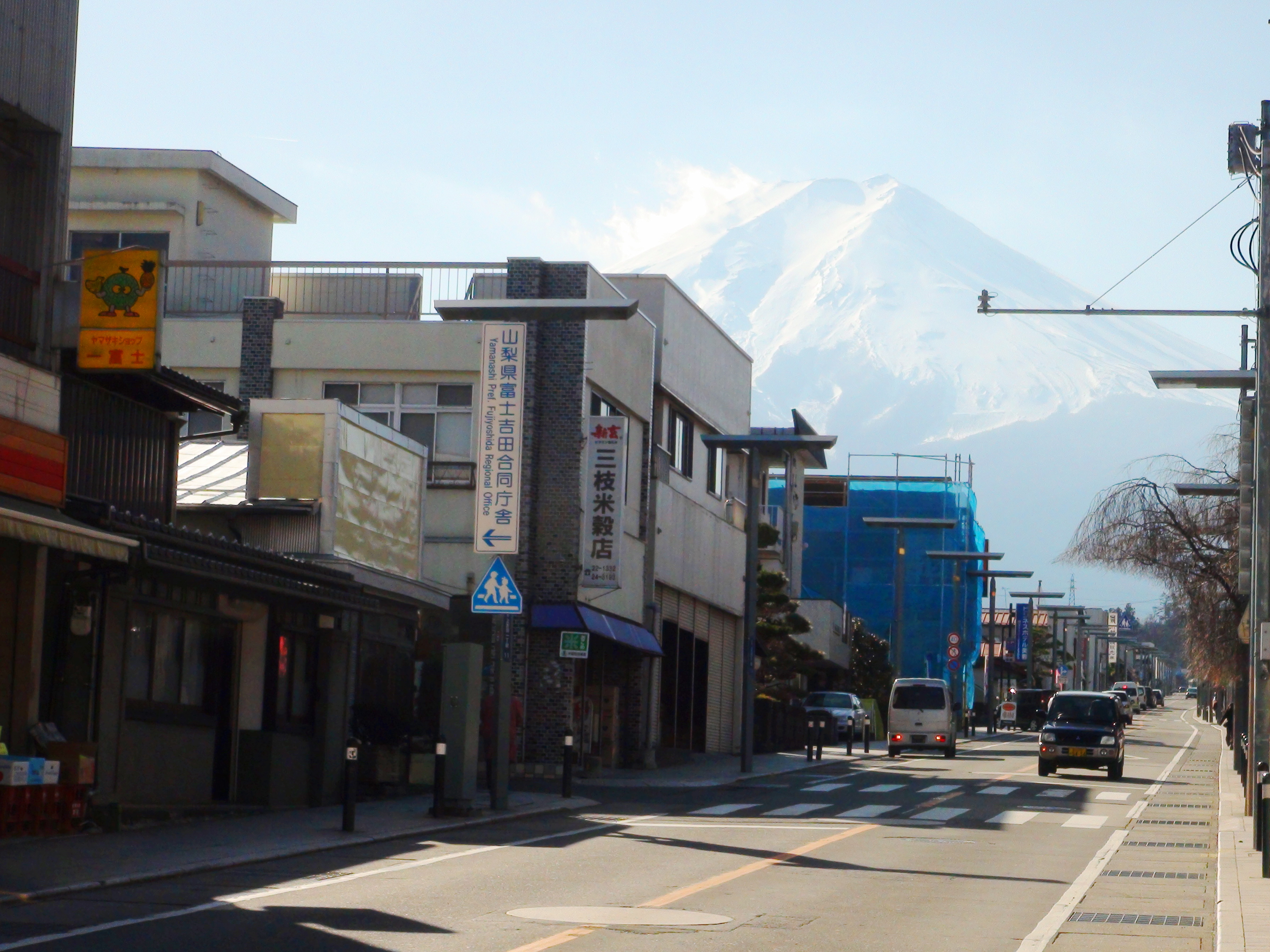 Looking up Mt. Fuji from the Kamiyoshida town